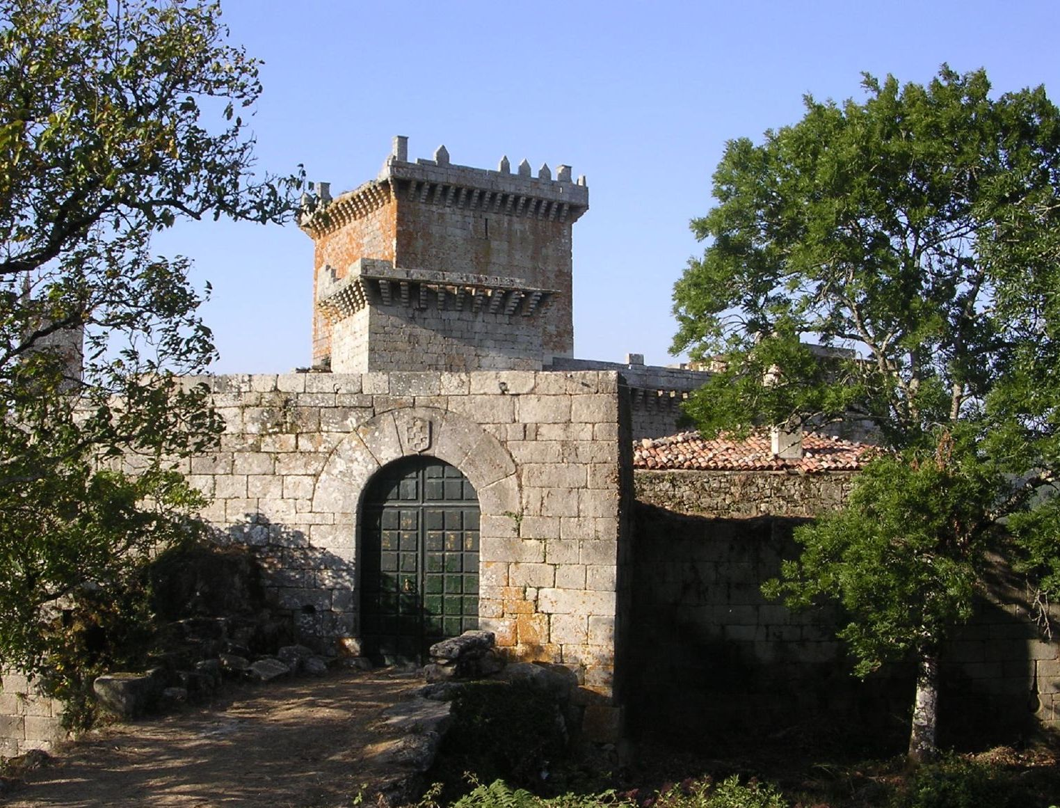 The private Castle of Pambre is the best example of Galician Military architecture. Looks like they've done some work as there is no longer vegetation growing from the towers. The castle has now been sold to the Spanish Government who have no funds for restoration, so the vegetation is growing again. The grounds of the castle are open to the public free of charge, but beware of the guard dog.